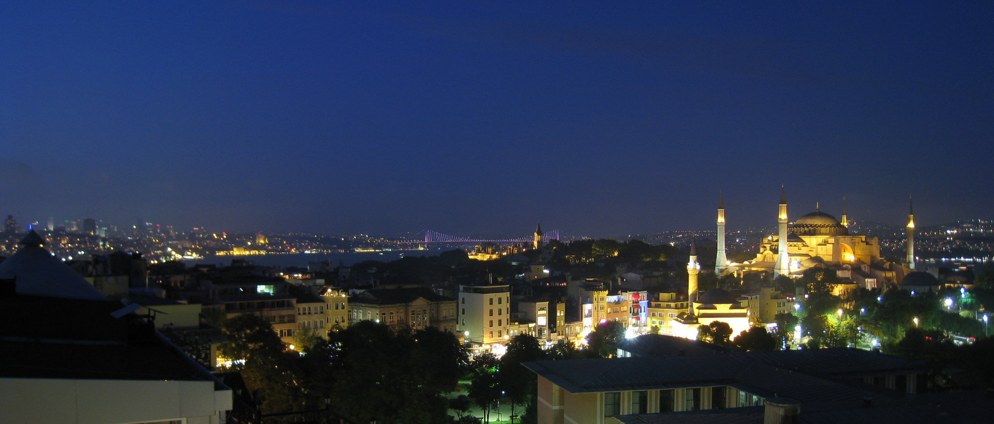 Istanbul's Sultanahmet neighborhood with the Hagia Sophia (right), Topkapi Palace (center), and Bosphorus Bridge (center) in view.